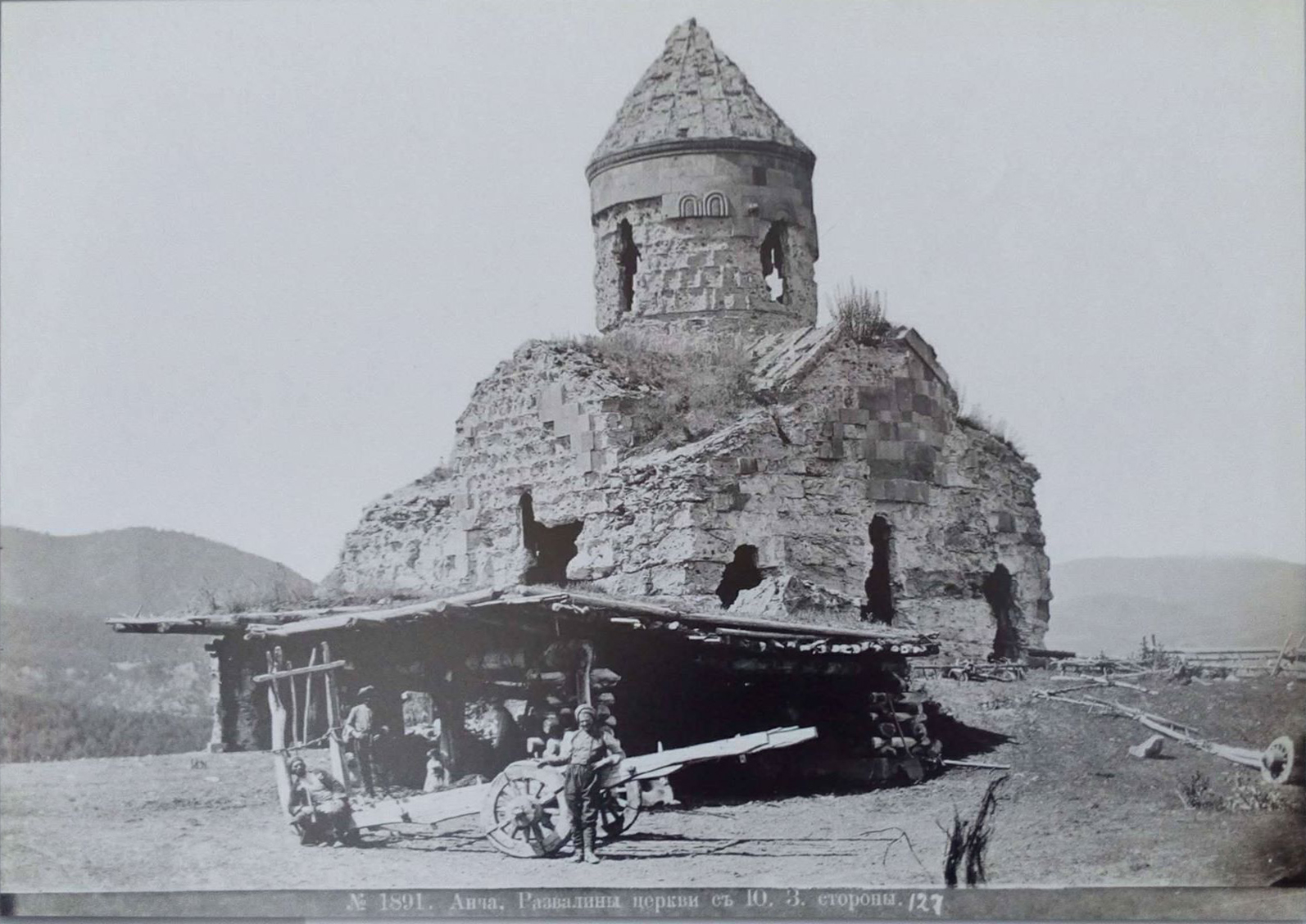 Main church of the medieval Georgian orthodox Ali monastery in Potskhovi Valley, modern Turkey